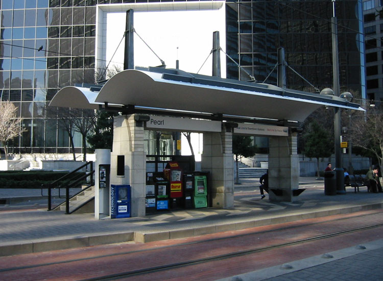 Pearl Station in the City Center District of downtown Dallas, Texas (USA) at Bryan Street, east of Pearl